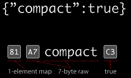 MessagePack comparison with JSON